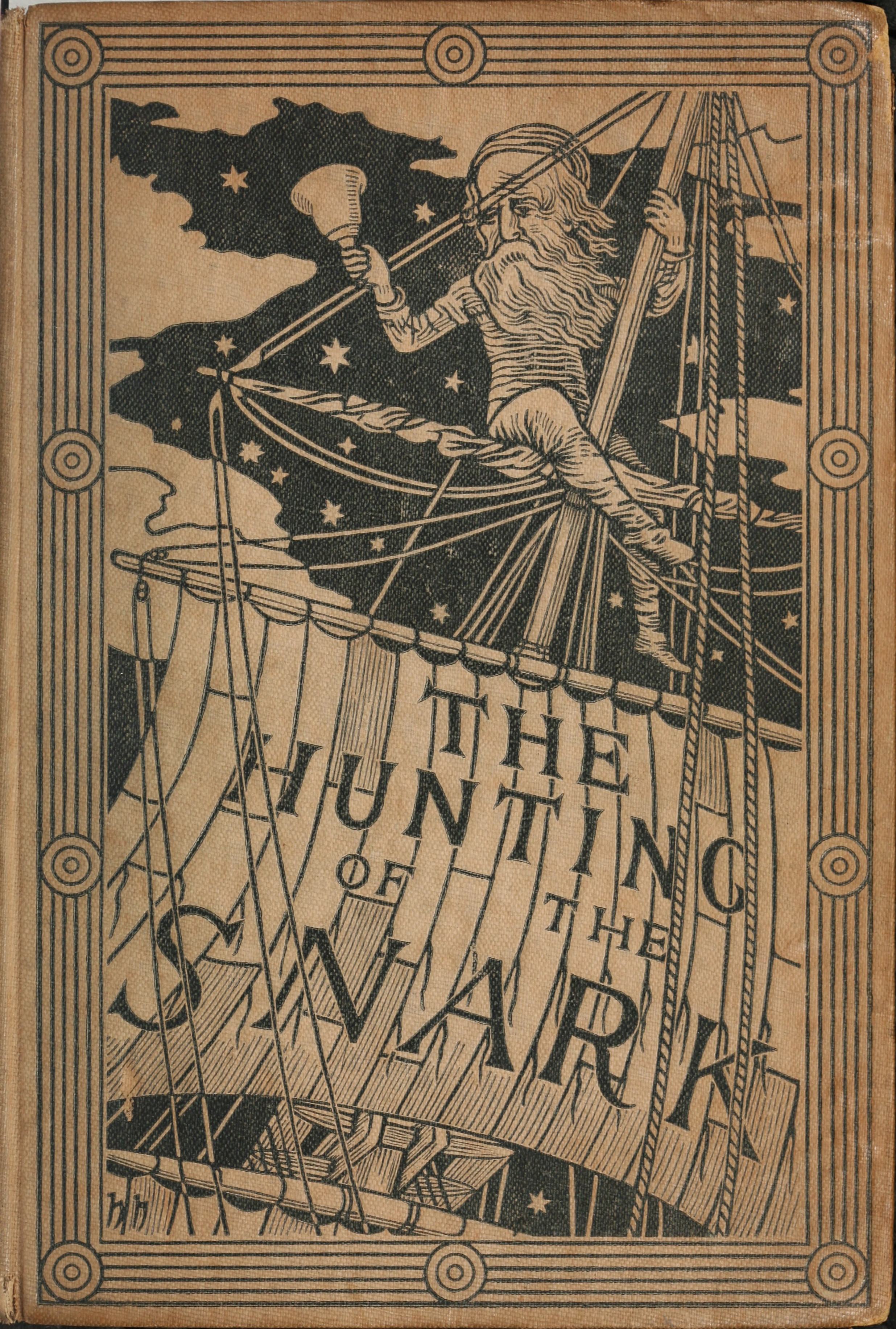 Cover of the first edition of The Hunting of the Snark (1876) by Lewis Carroll, illustrated by Henry Holiday. image rotated and cropped from original scan from the Internet Archive by Yodin